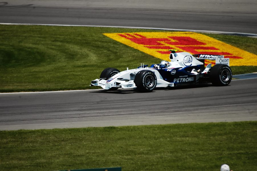 Sebastian Vettel driving for BMW Sauber at the 2007 United States Grand Prix.